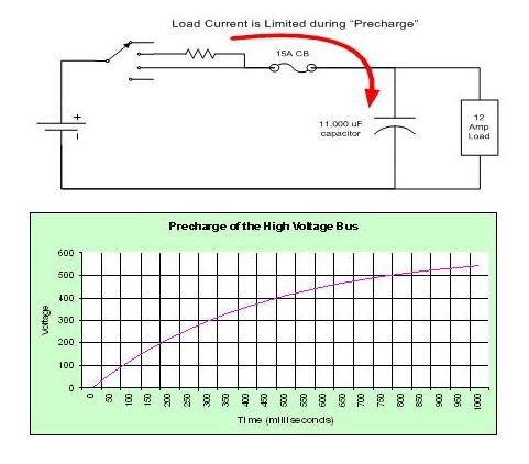 Precharge